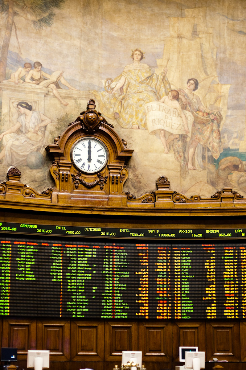 View of the Santiago Stock Exchange's floor